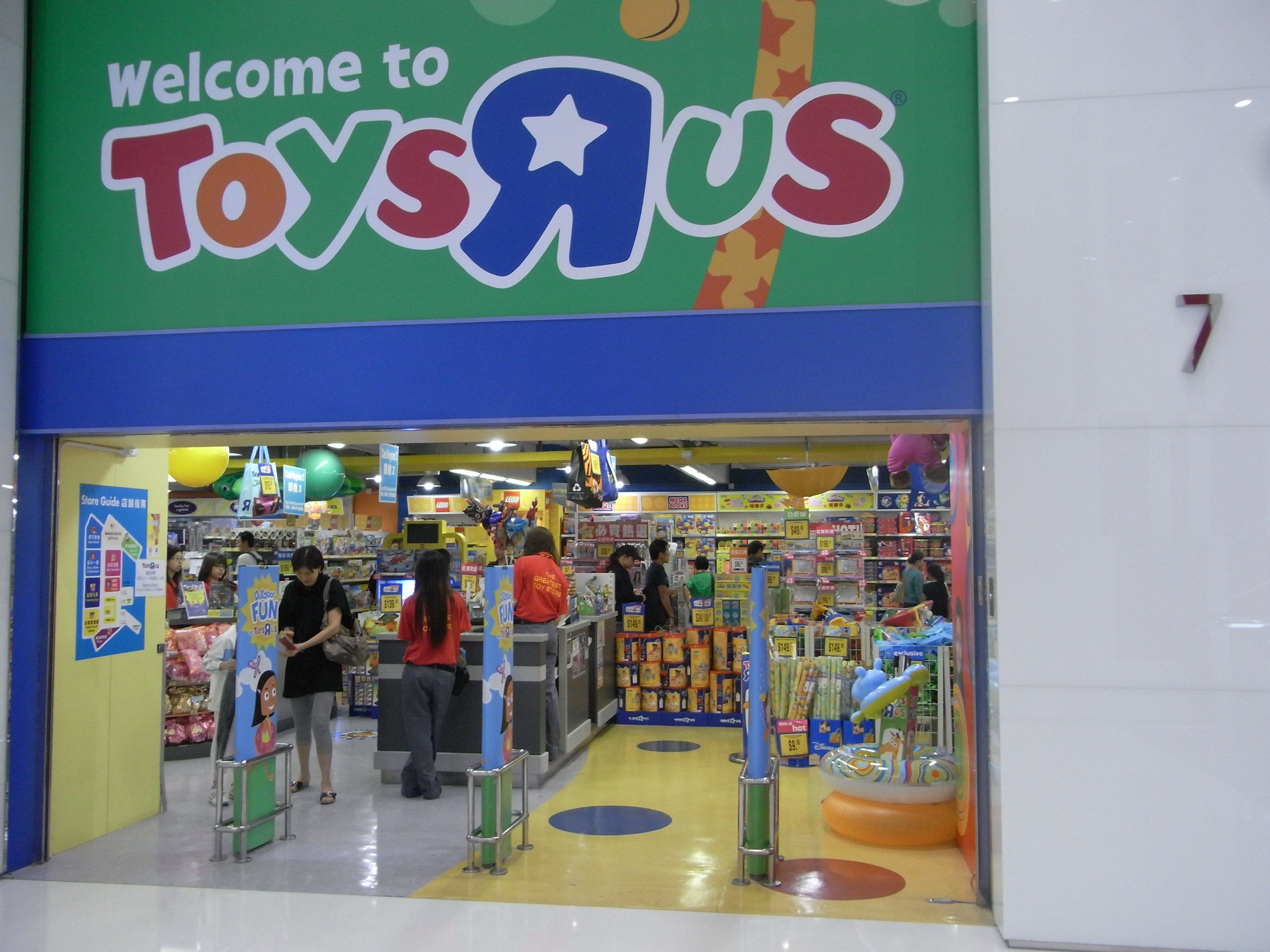 銅鑼灣2010年6月